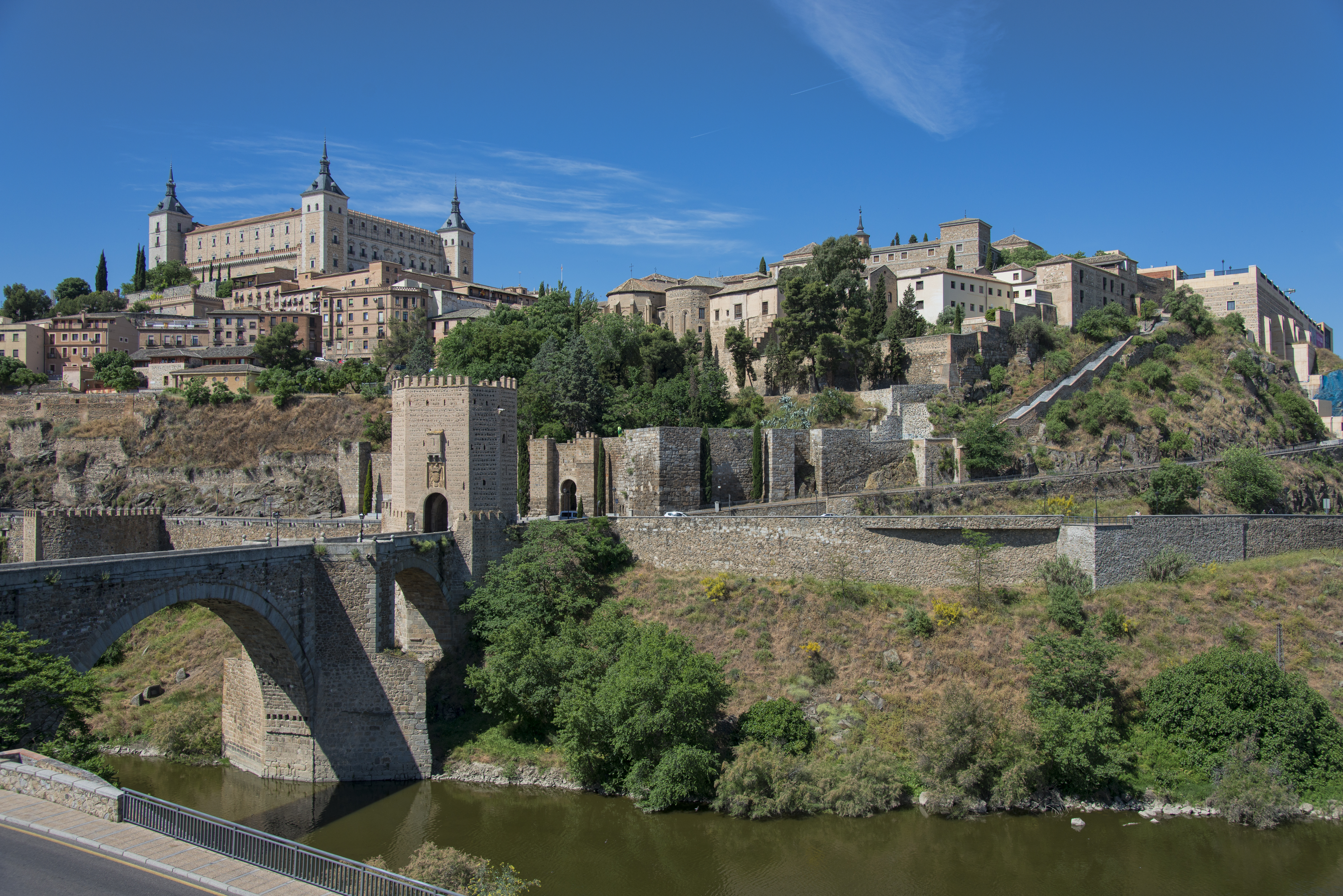 Puente de Alcántara toledo spain 2014